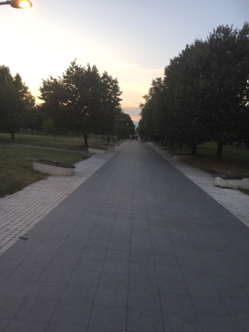 Children's street in Novo Lisice